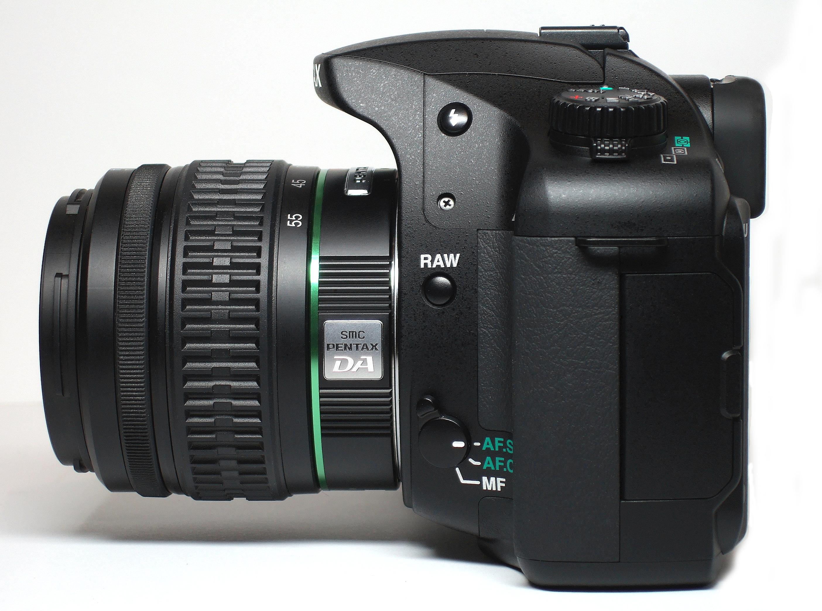 Pentax K10D Digital SLR Camera with 18-55mm Lens (2006)